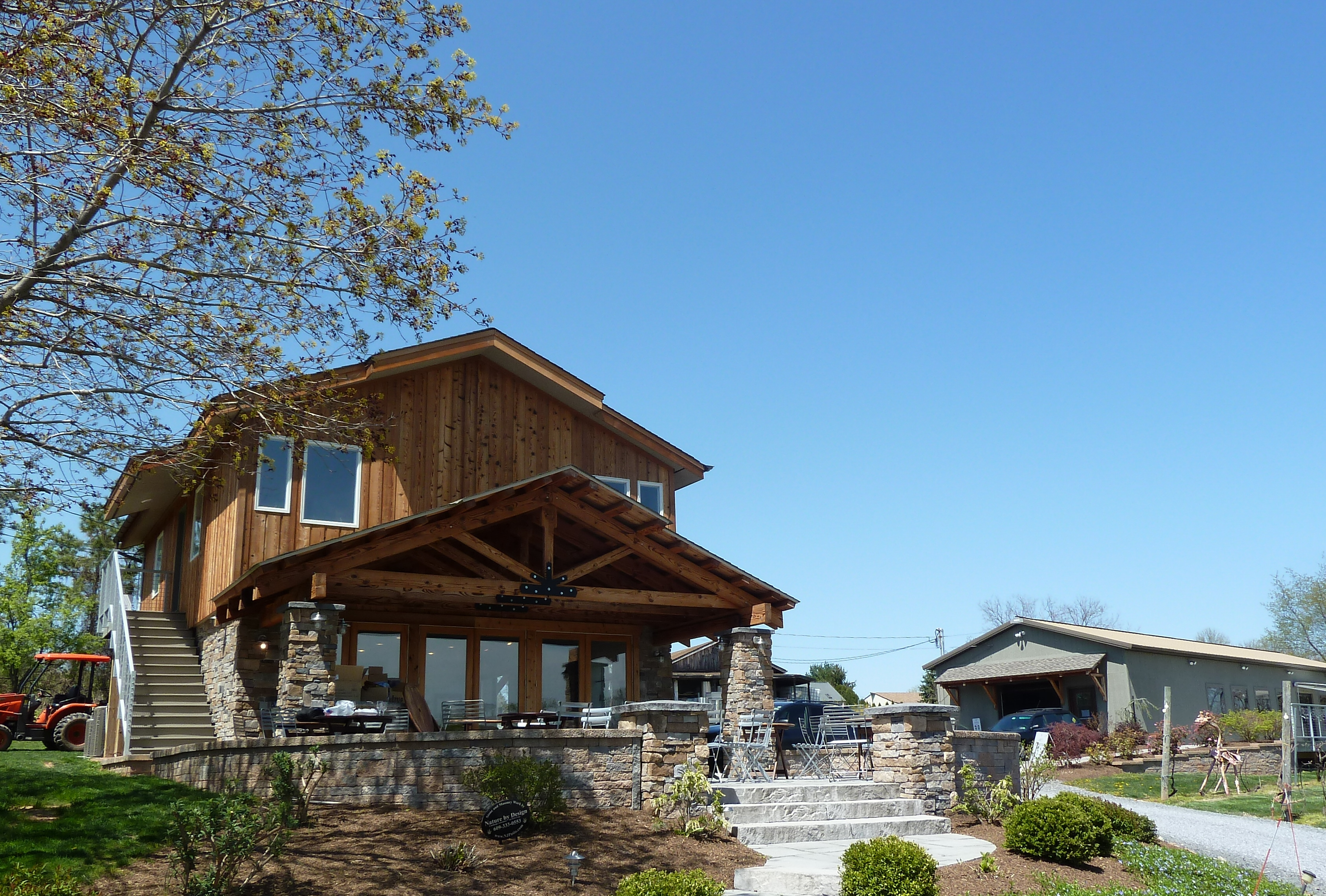 The patio area at Old York Cellars in Ringoes, New Jersey, USA. Old York Cellars permits picnicking on its patio year round.